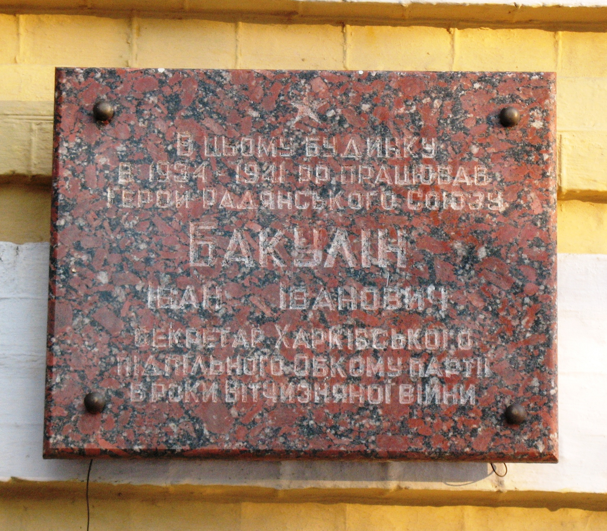 Bakulin Ivan memorial tablet on Artema street,44, Kharkov.